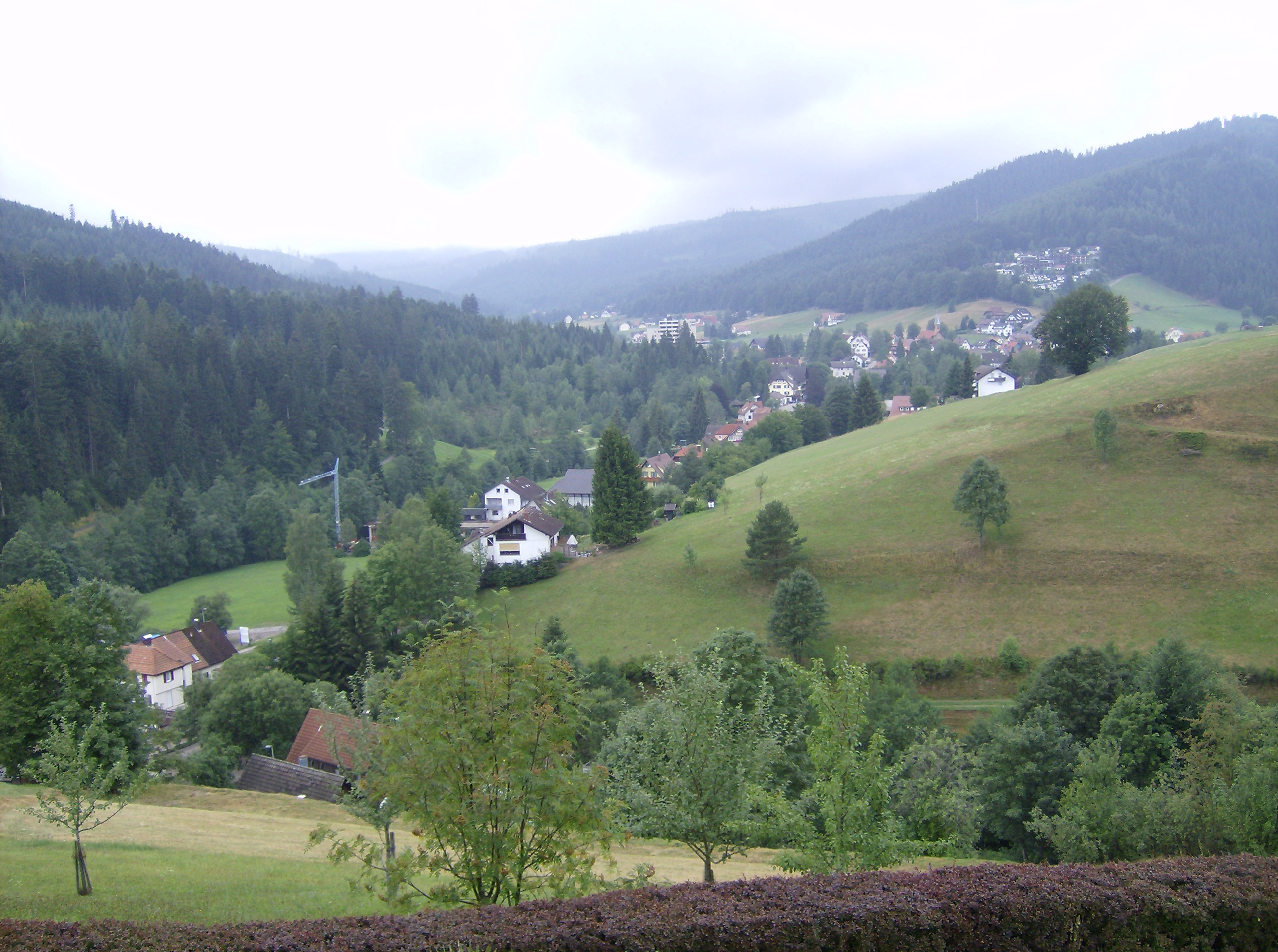 Obertal, a village in the German municipality Baiersbronn.